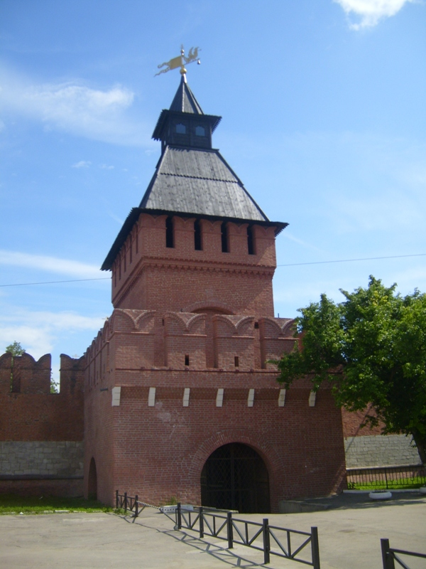 Tower of Piatnitski gate in Tula Kremlin